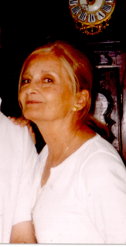 French Actress Sylvie Pelayo 2000